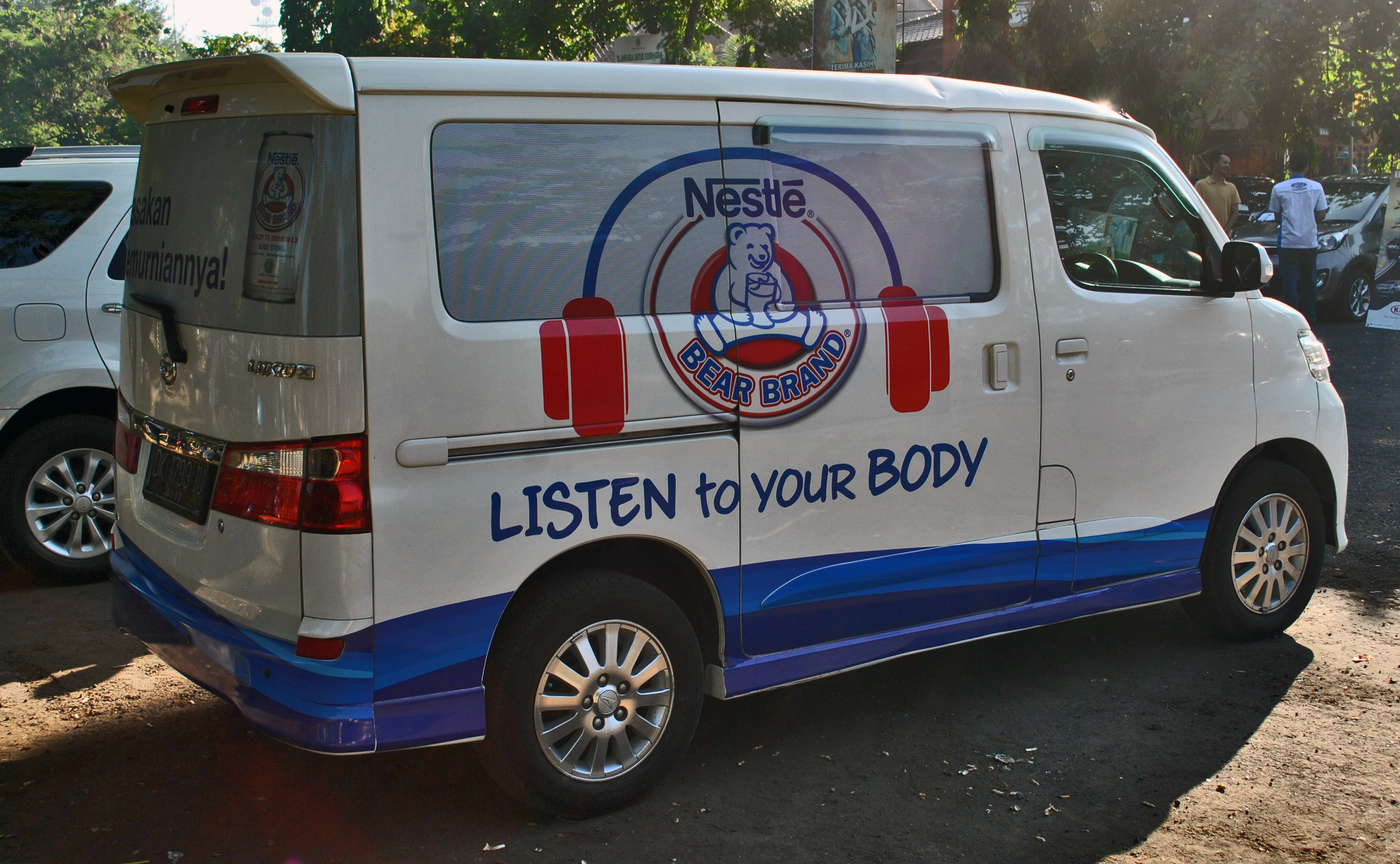 Rear right side view of Daihatsu Luxio commercial van in Denpasar, Bali. Used as a commercials van belong to Nestlé, for their Bear Brand pure milk product.